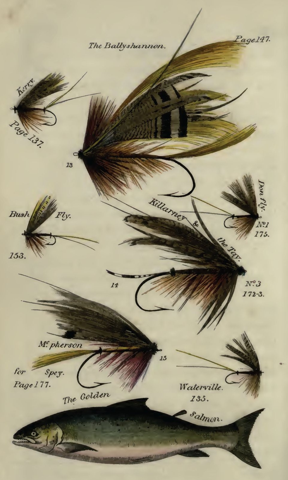 Plate 19 - Plate of 7 Flies and Salmon from William Blacker's Art of Fly Making, 1855